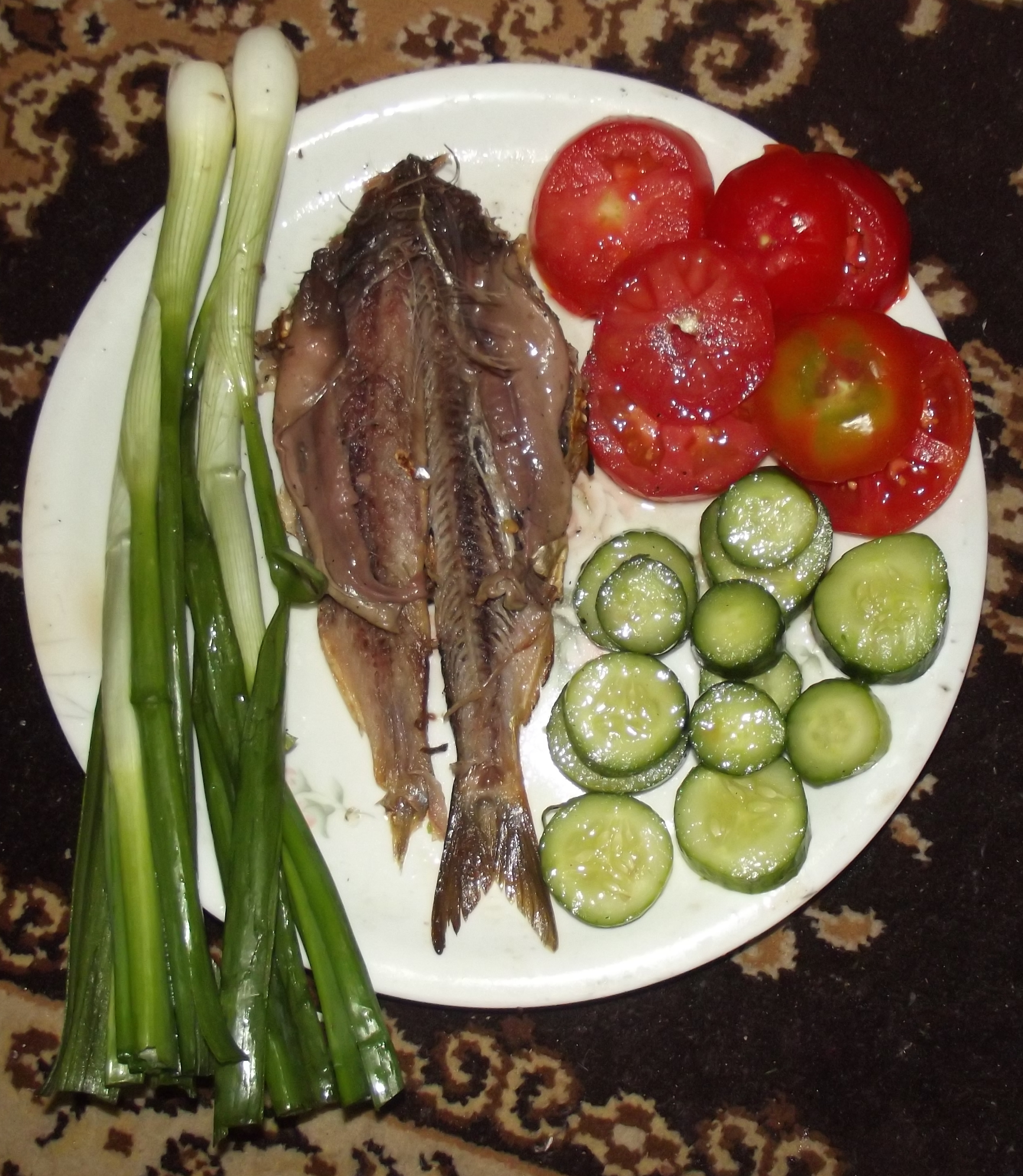 رنجة و معها السلطات This is an image of food from Egypt